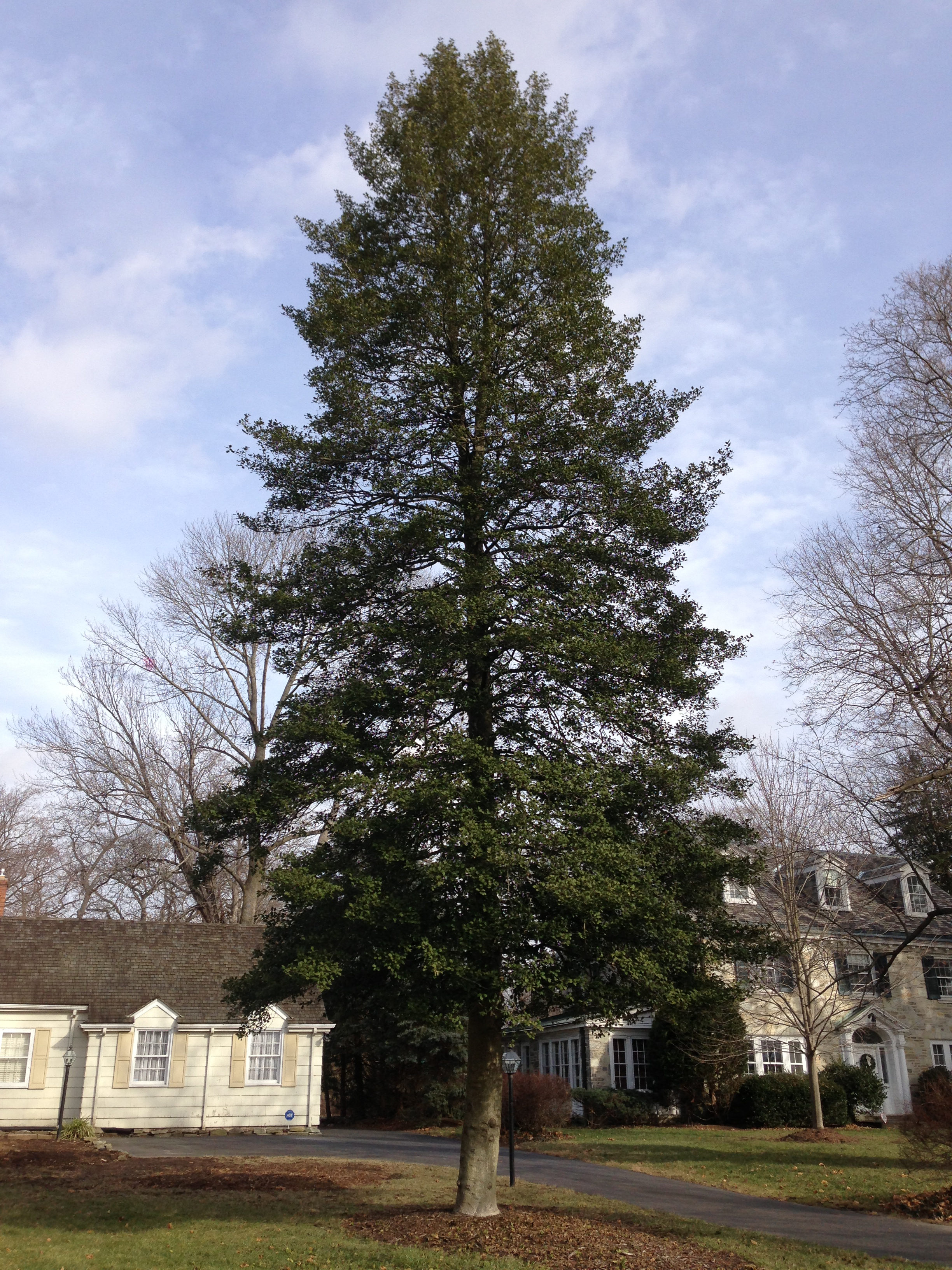 American Holly along River Road (New Jersey Route 175) in Ewing, New Jersey